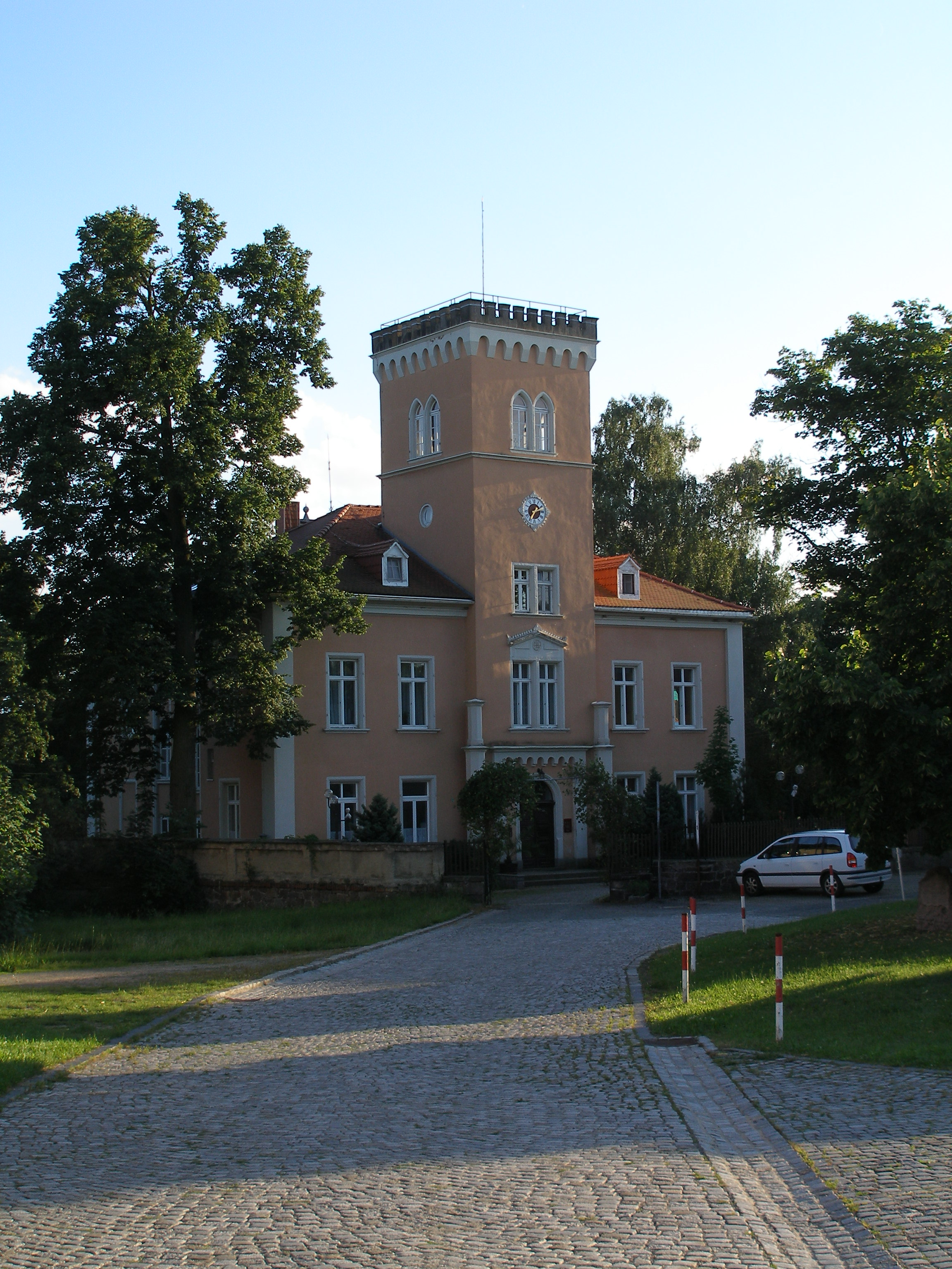 Castle in Niedercunnersdorf-Ottenhain, Saxony, Germany